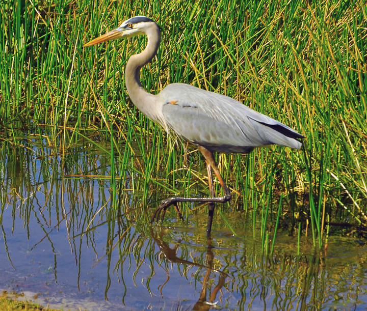 This photo was taken at the Audubon Cooperative Wildlife Sanctuary in Orlando, FLA